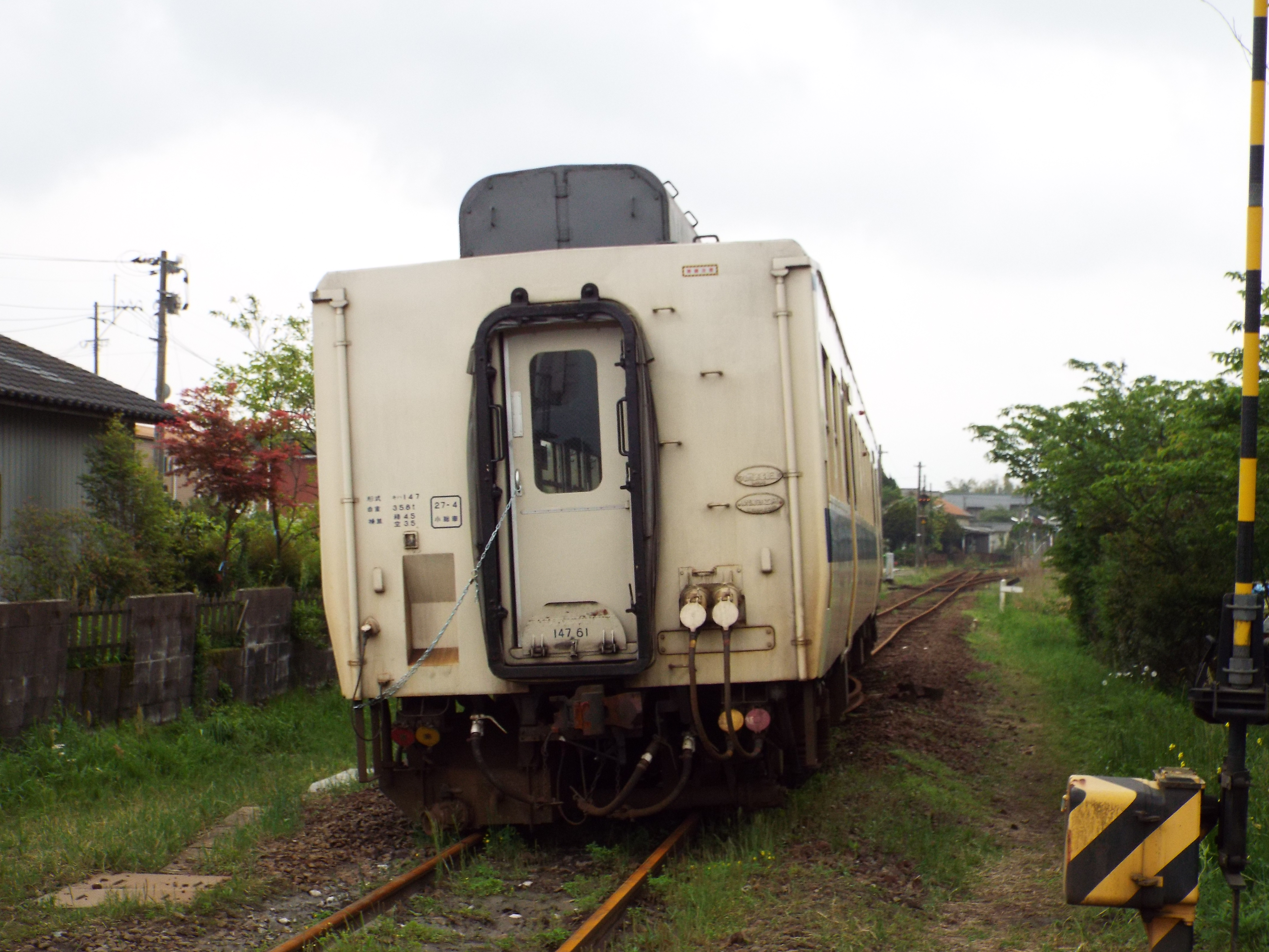 after earthquake